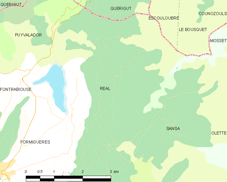 Map of French municipality